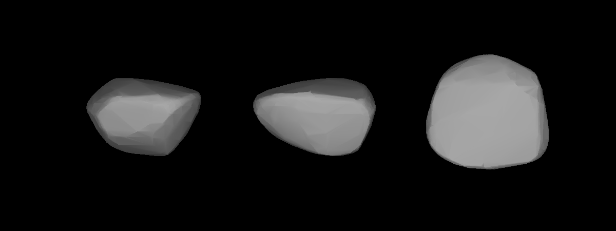 A three-dimensional model of 578 Happelia that was computed using light curve inversion techniques.